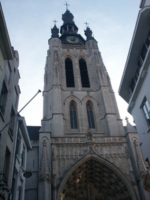 own picture